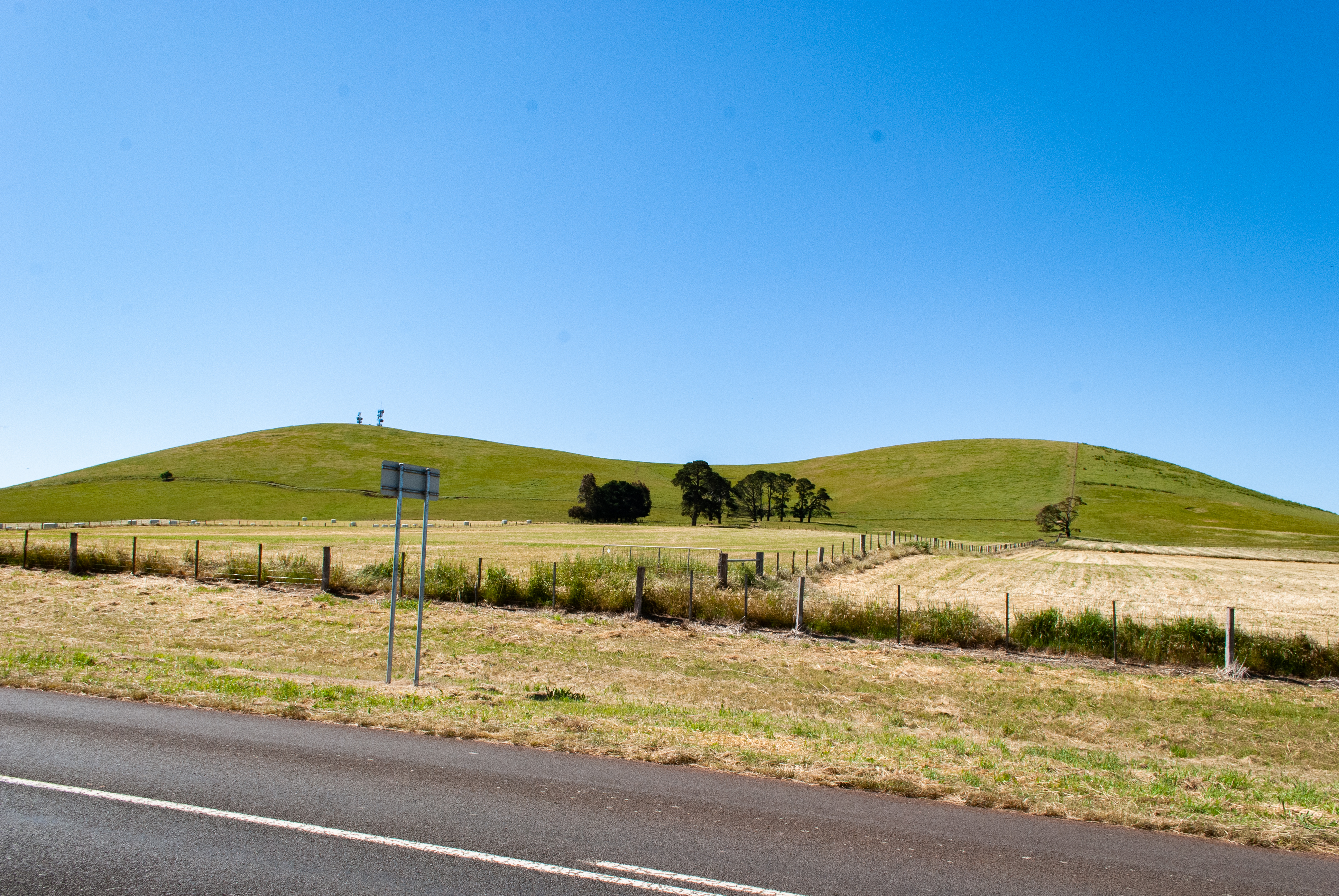 This was taken right at the Bald Hills Sign pointing towards the two Bald Hills.